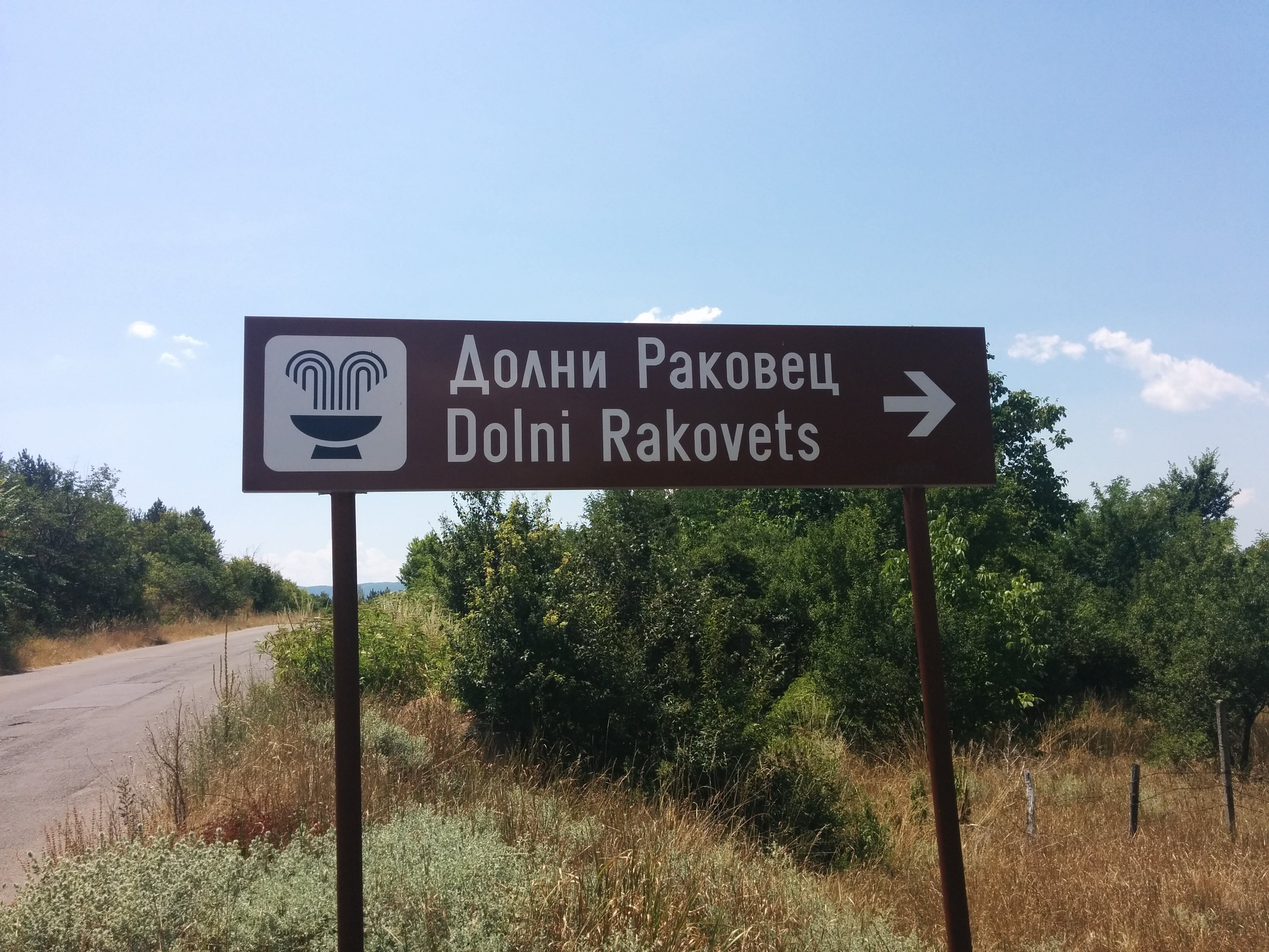 Dolni Rakovets road sign